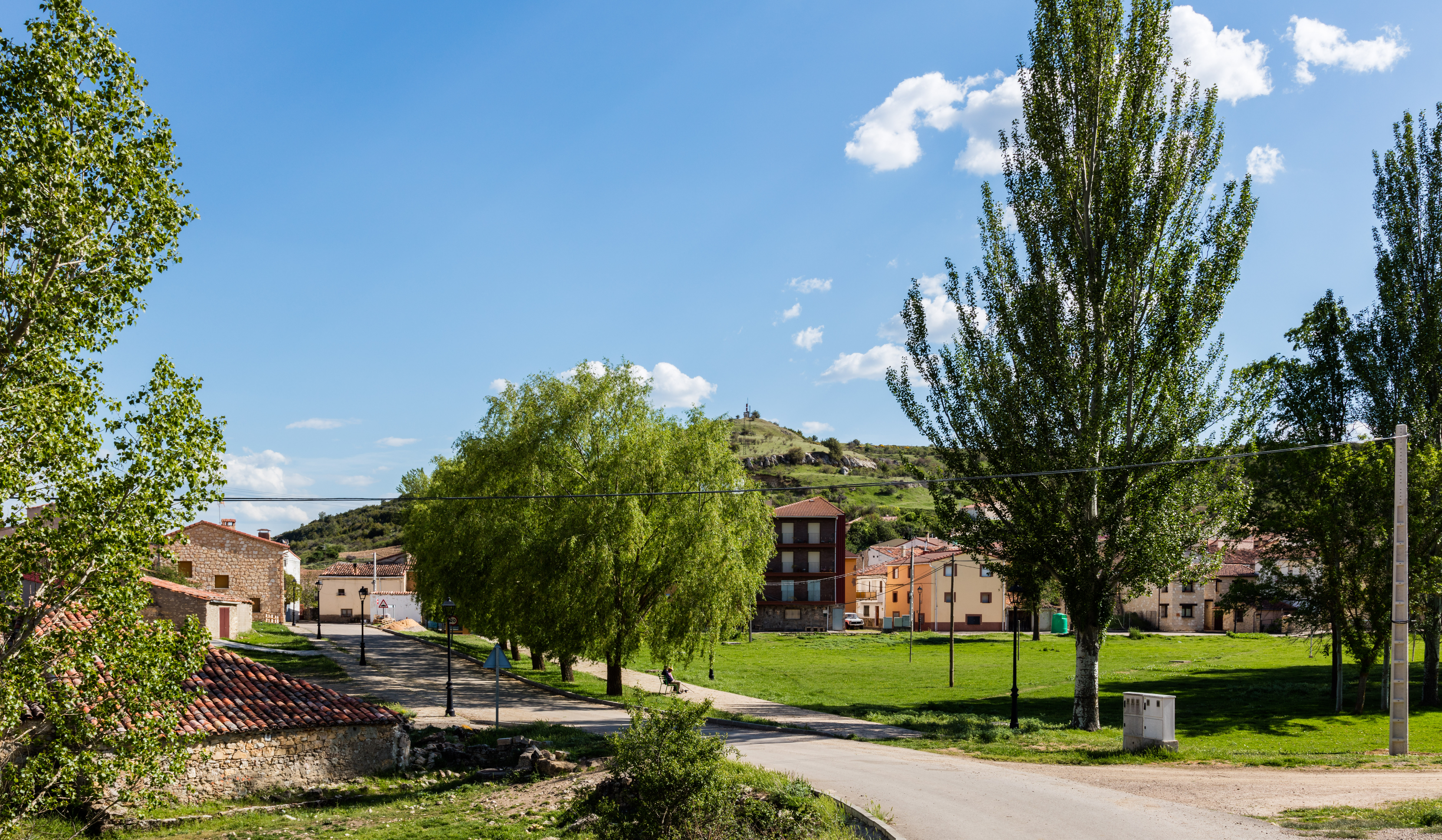 Taravilla, Cuenca, Spain